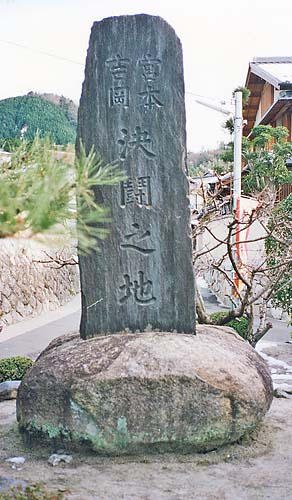 Ichijoji Sagarimatsu Kyoto Japan Miyamoto Musashi Yoshioka I took this photograph and contribute it to the public domain.